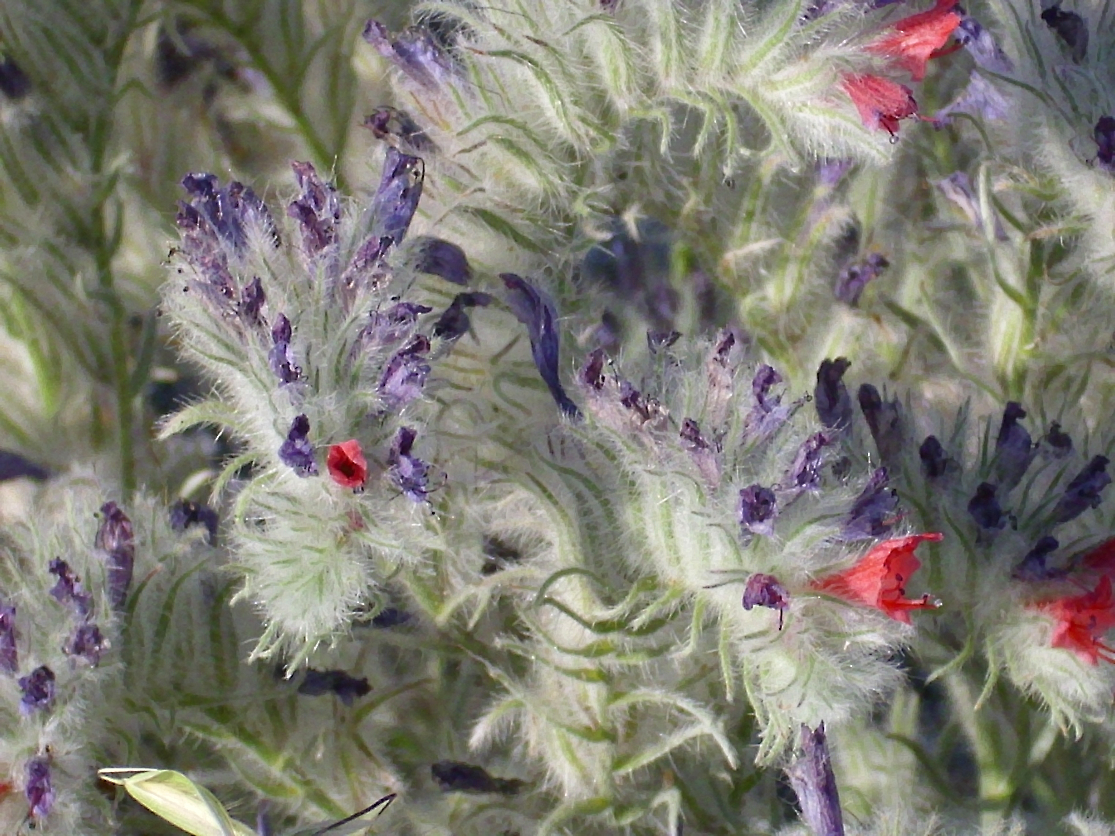 Echium albicans flowers close up, Sierra Nevada, Spain